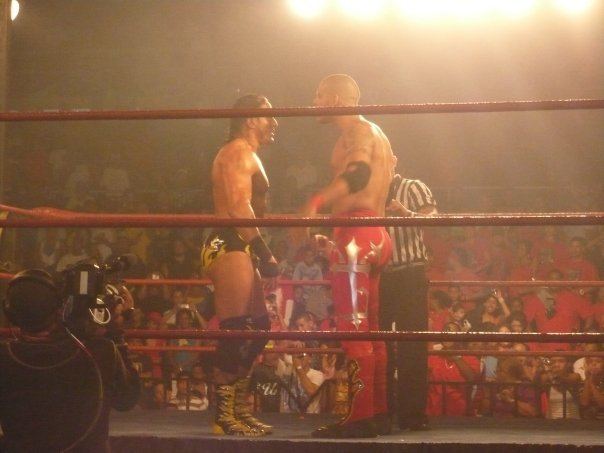 Dennis Rivera vs. El Mesias at the IWA's 10th Anniversary event